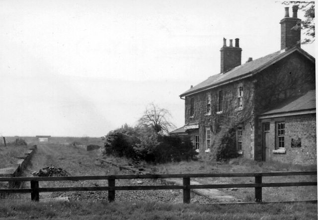 Baldersby station (remains), Near to Baldersby, North Yorkshire, Great Britain. Westward view towards Melmerby; former branch line, Thirsk - Melmerby (closed 14/9/59). Station already a private house in 1965. Bridge in distance carried the Great North Road (A1).